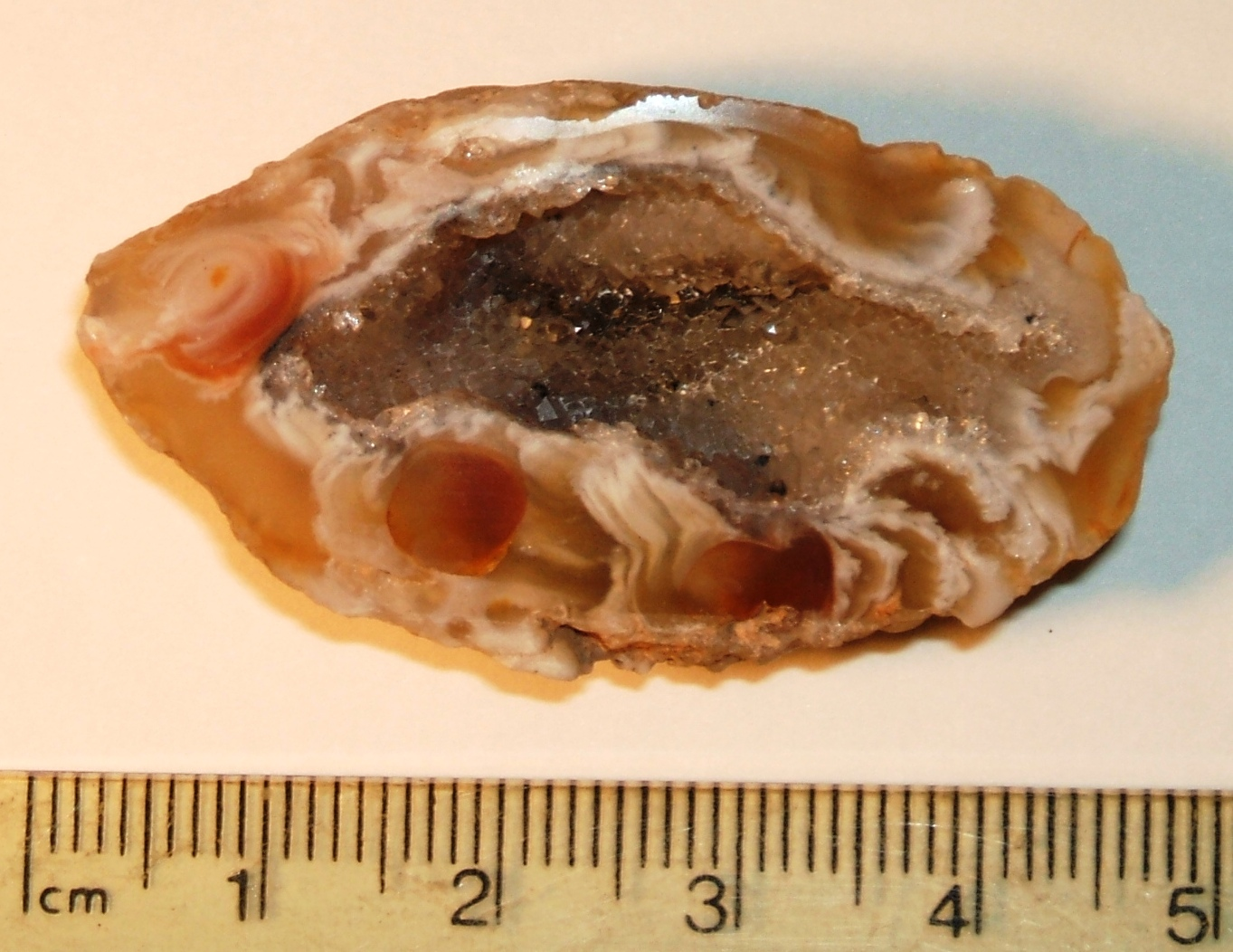 A cut and polished chalcedony geode, with a scale.